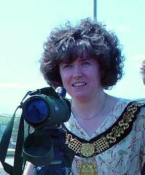 Using bird-watching telescopes to watch nesting sand martins at the launch of The Sanctuary Bird and Wildlife Reserve at Pride Park, Derby, England, 23 July 2004. Mayor of Derby, Cllr Ruth Skelton (right); Margaret Beckett Derby South MP and Secretary of State for the Environment , Food and Rural Affairs (centre) and Derby City Council official Nick Moyes (left)